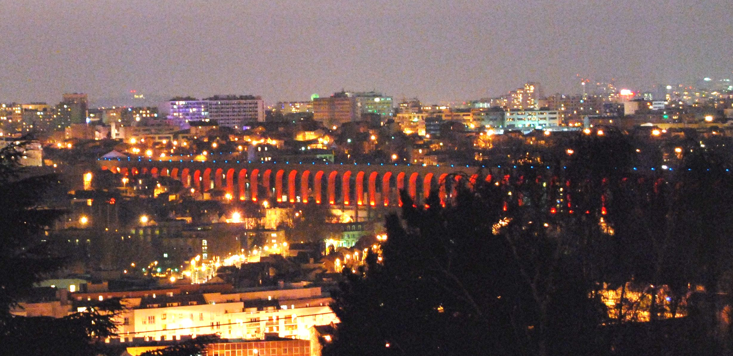 This photograph shows the "Aqueduc de la Vanne" and the "Aqueduc Medicis" illimunated. It was taken from the "Jardin Panoramique Départemental" of Cachan.